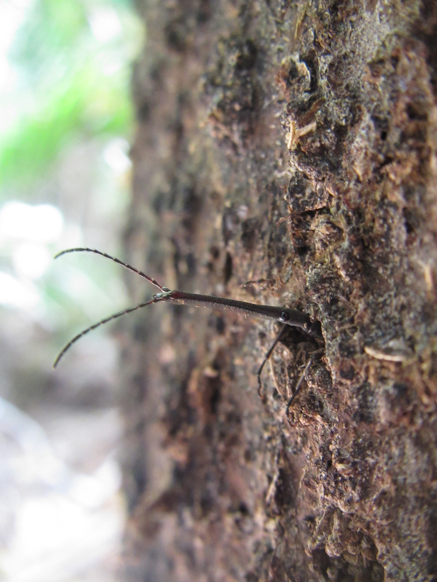 A male New Zealand giraffe weevil (Lasiorhynchus barbicornis) emerging from a tree trunk